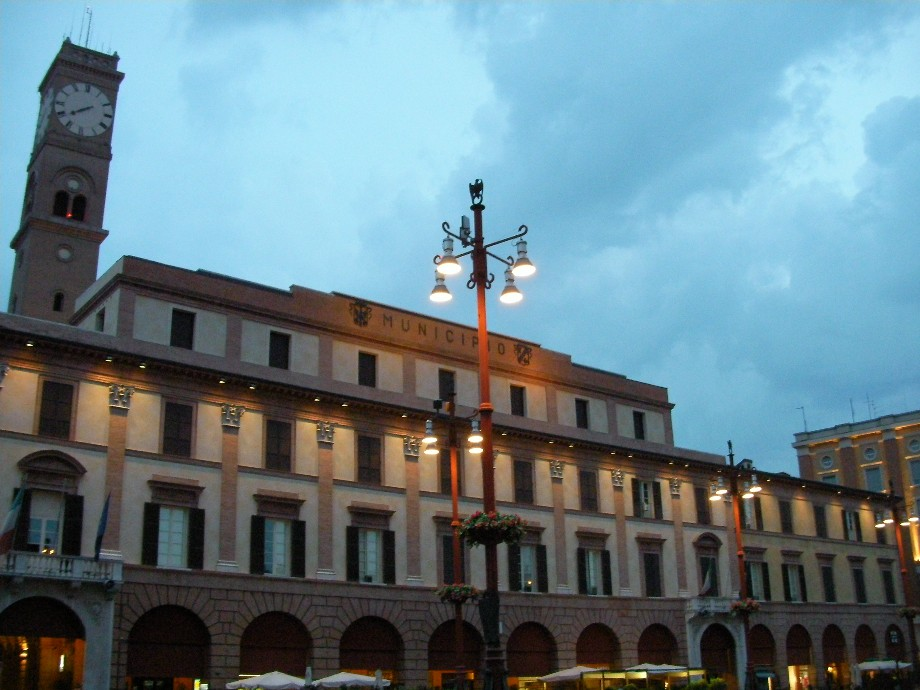 The Town hall of Forlì